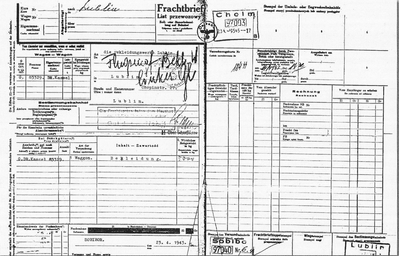 Waybill regarding the transport of 5 tonnes of clothes from Sobibor death camp to KL Lublin